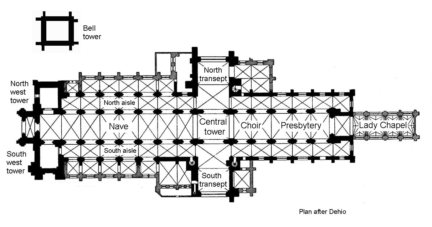 A plan of Chichester Cathedral in England by G Dehio (died 1932), modified by the addition of architectural names